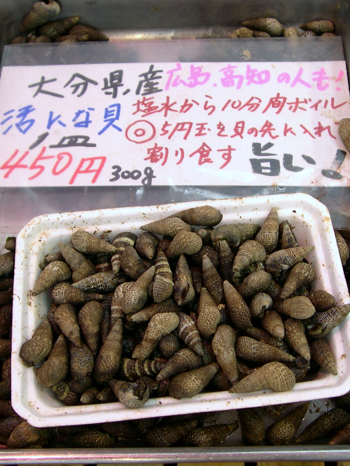 Living horn snails Batillaria multiformis from Ōita Prefecture for sale at a fish market in Tokyo, Japan. 大分県産活にな貝 1皿（300g）450円。塩水から10分間ボイルして五円玉で貝の先を折って肉を割り出す。旨い。